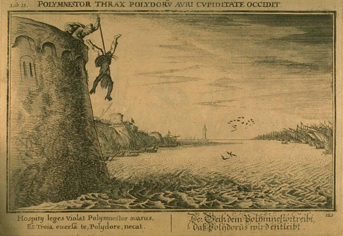 Polymnestor kills Polydorus. Engraving de Bauer for Ovid's Metamorphoses Book XIII, 430-438.